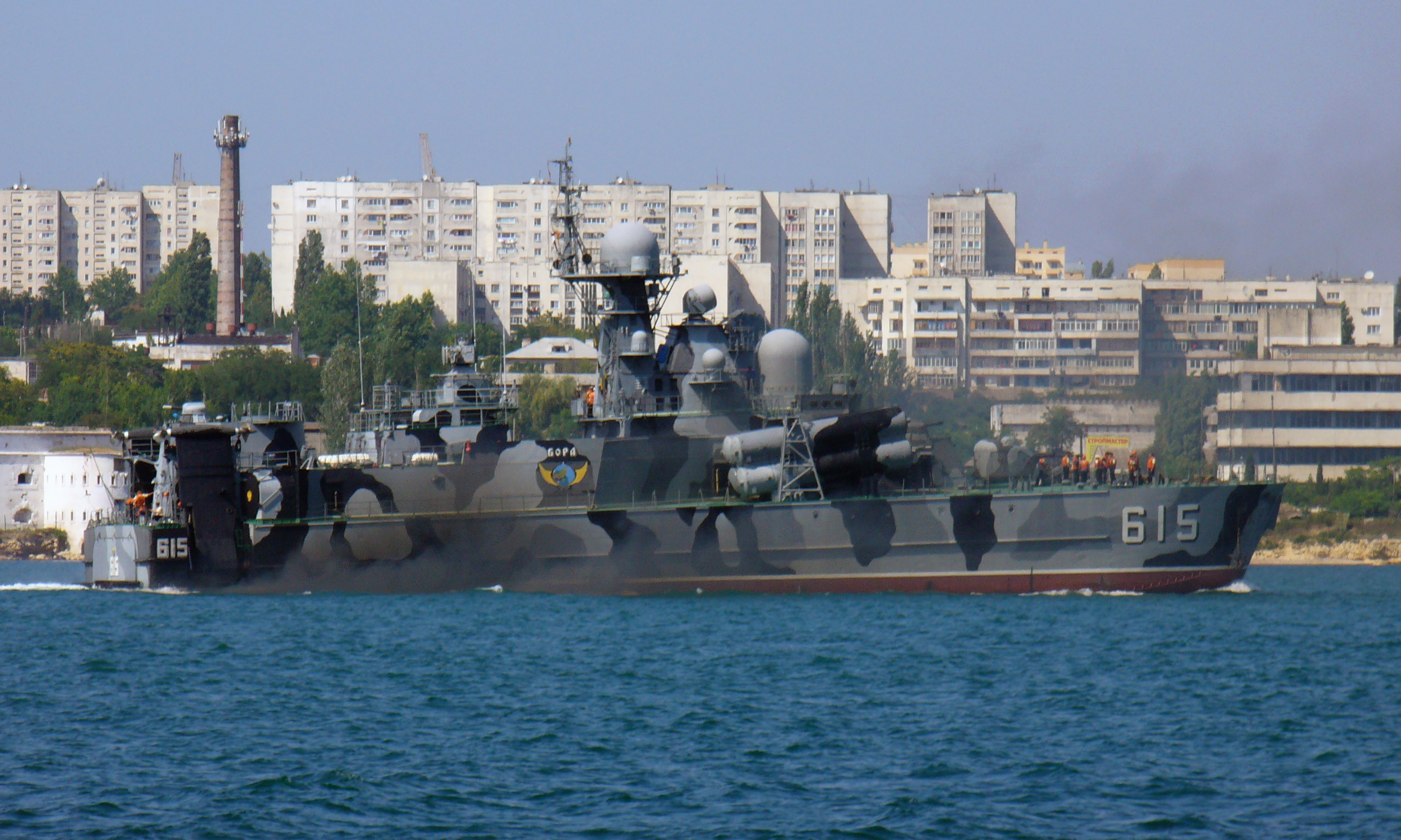 The Bora-class hoverborne guided missile corvette of the Russian Navy. Project 1239. First name "Sivuch", which was later renamed "Bora". The Southern bay of Sevastopol.